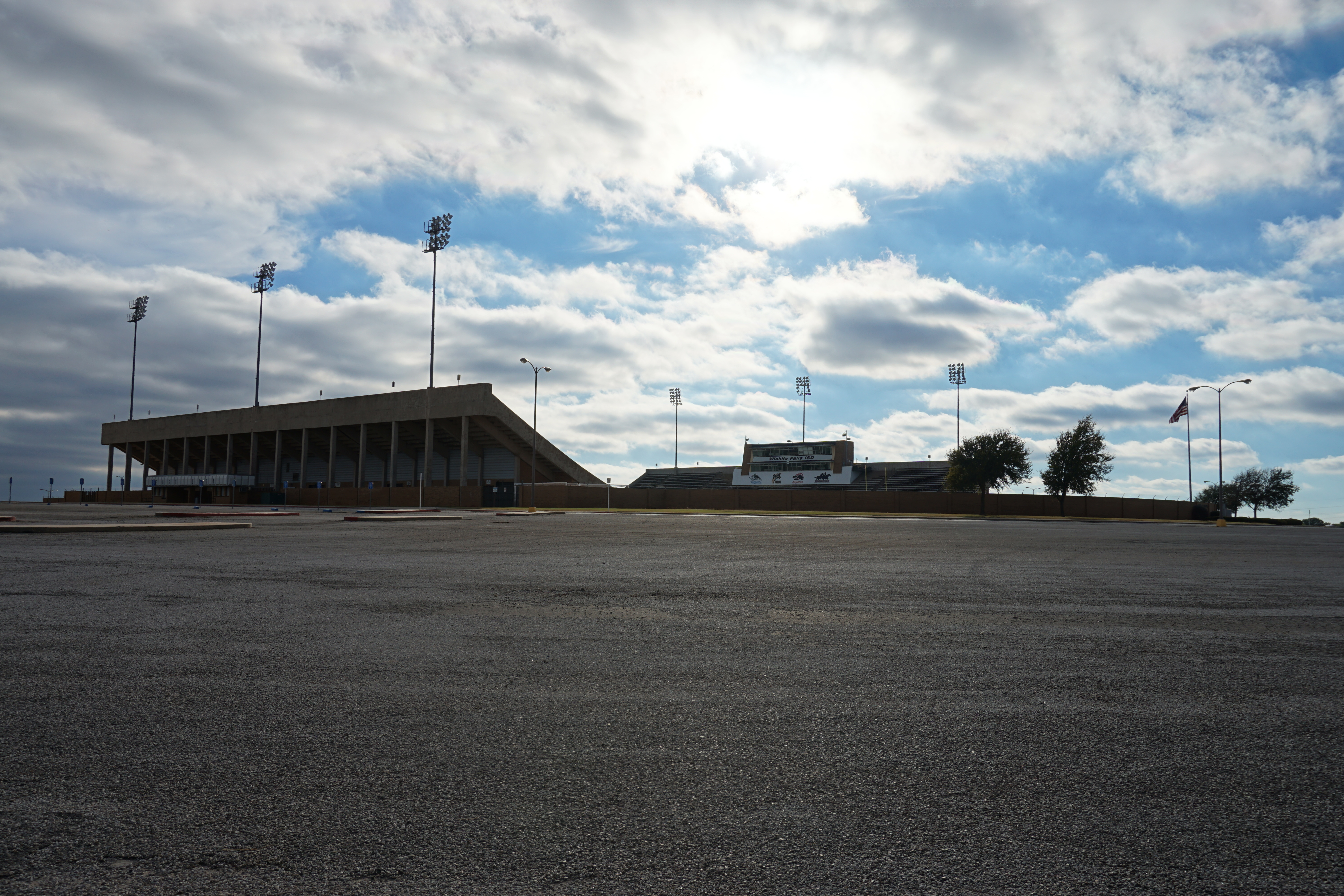 Memorial Stadium in Wichita Falls, Texas (United States).